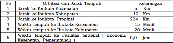 Orbitasi, Waktu Tempuh, dan Letak Desa